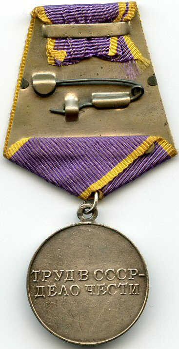 Medal "For Distinguished Labour" (reverse)